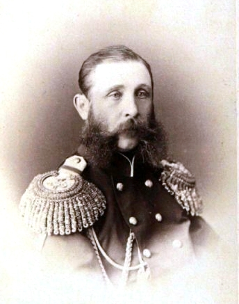 Samuil Greyg